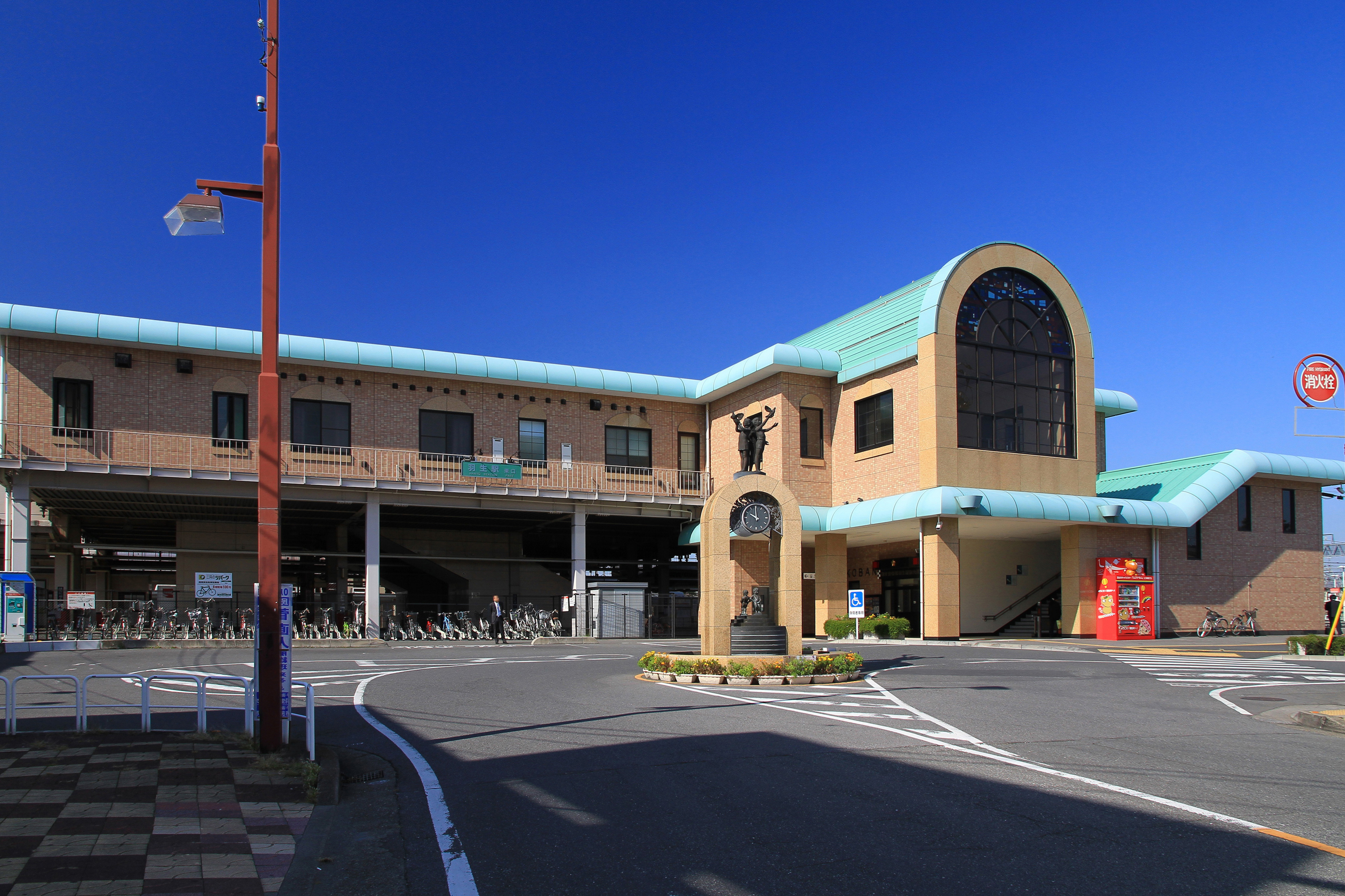 East entrance of Hanyu Station in Saitama Prefecture